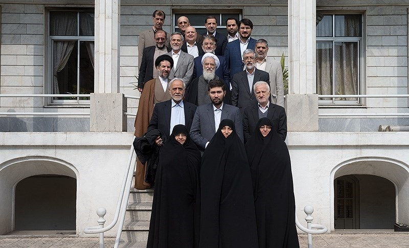 Principlists Grand Coalition meeting with Ayatollah Movahedi Kermani